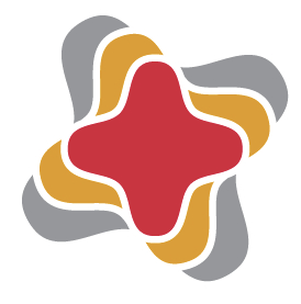 Interfaith Seminary Logo